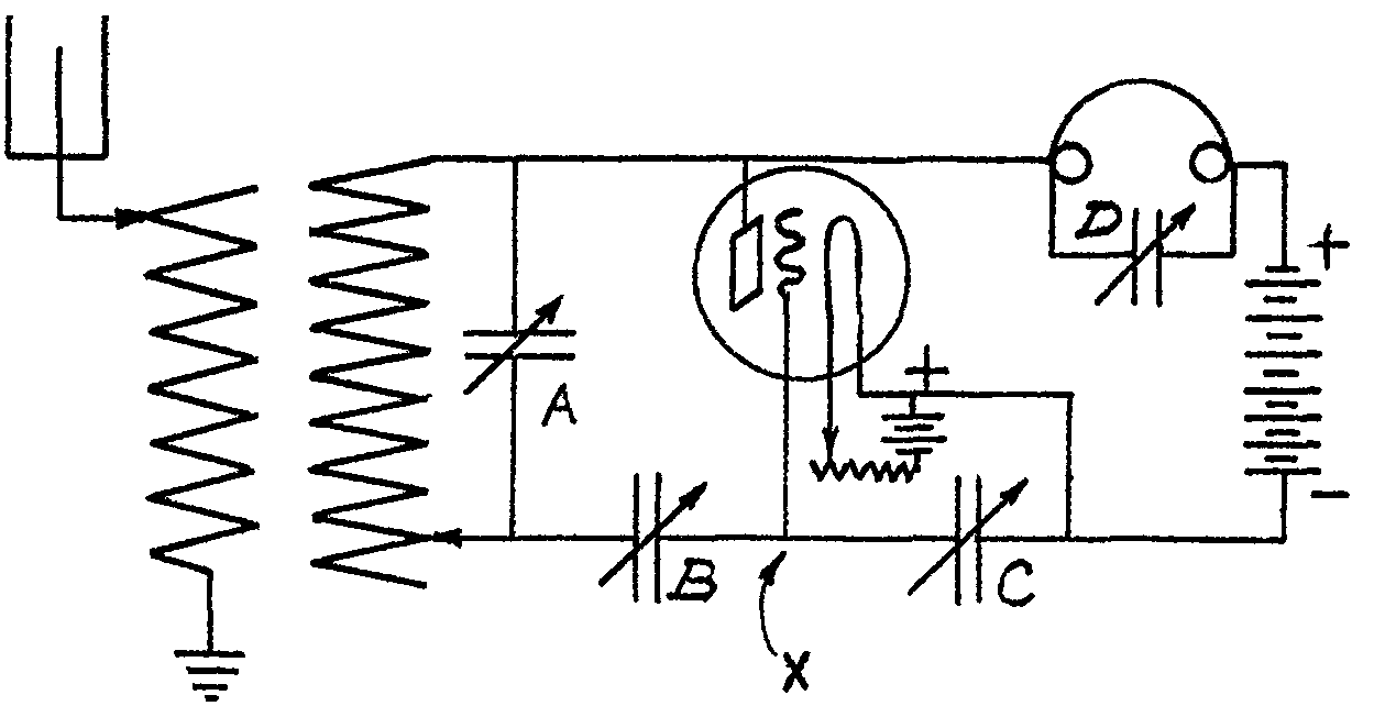 Schematic diagram of an oscillating audion, an early direct-conversion receiver design